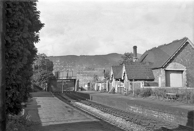 Ashchurch - Great Malvern railway. Malvern Wells (Hanley Road) Station; view NW toward Great Malvern, Malvern Hills behind